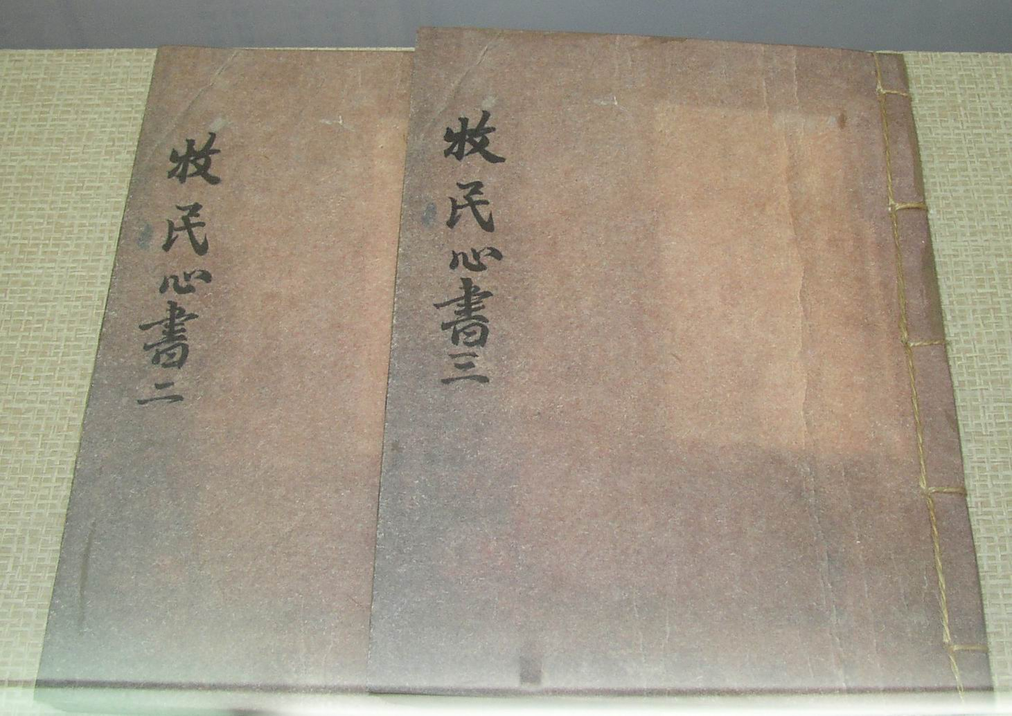 Photo of a book titled "Mokmin simseo" regarding guide for local governmental officers written by a prominent Korean philosopher, Jeong Yak-yong during the late period of the Joseon Dynasty.